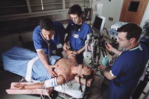 Anesthesiology students training with a patient simulator.